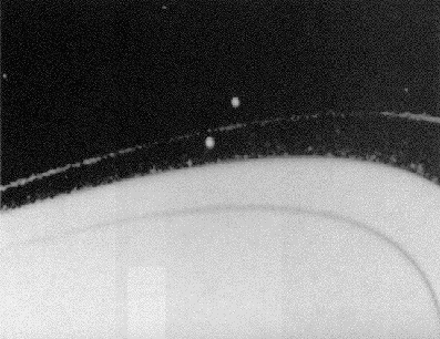 Prometheus, Pandora and Saturn's F Ring